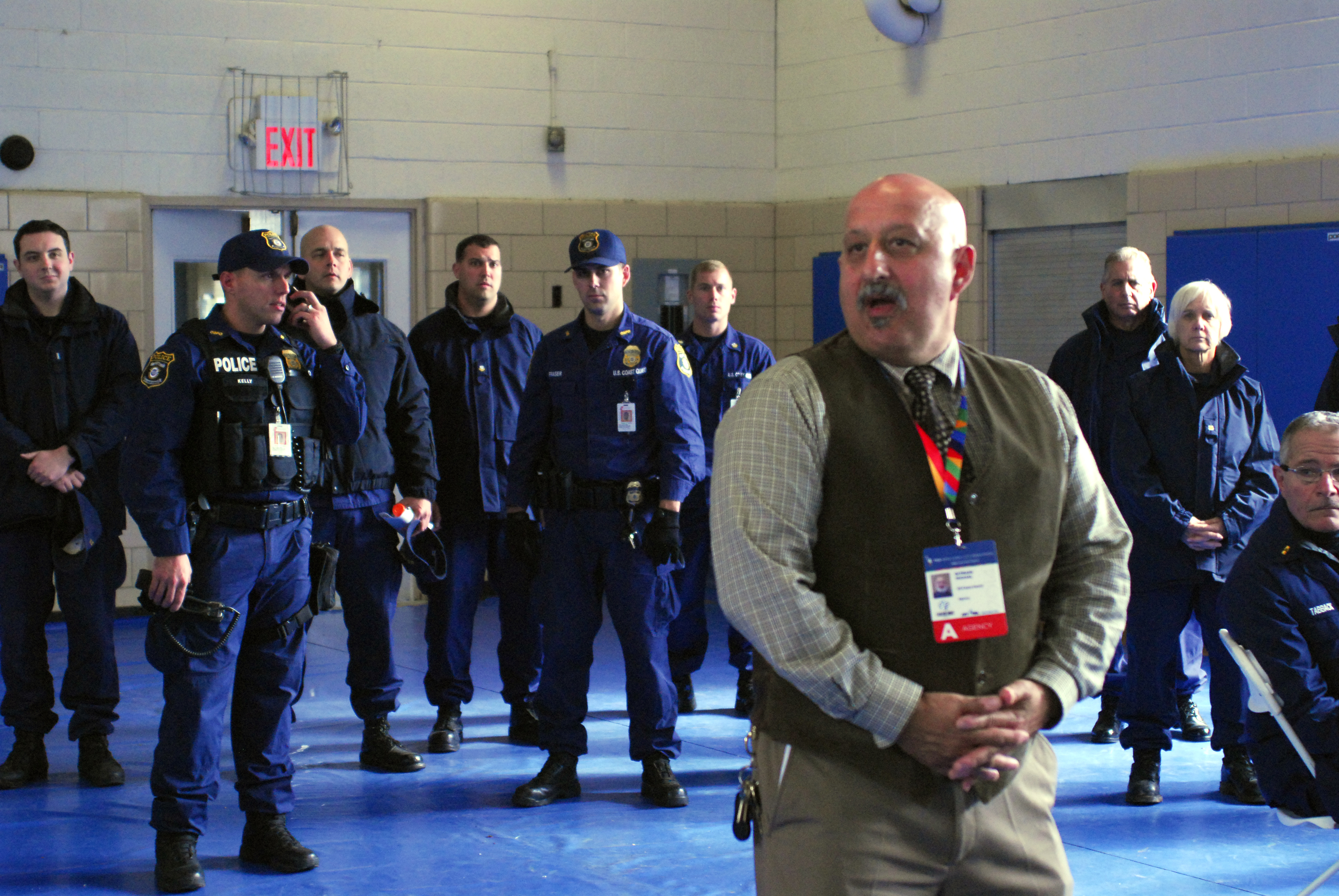 Mike Di Trani, command security officer at U.S. Coast Guard Sector New York, debriefs with members of the Coast Guard Police Department, Maritime Safety and Security Team New York, Coast Guard Investigative Service, Sector New York and Coast Guard Auxiliary after the last group of runners cross the start line of the 2014 TCS New York City Marathon on Fort Wadsworth, Nov. 2, 2014. The group discusses the effectiveness of the measures put in place to ensure the safety and security of all the runners and vendors and how to improve for 2015’s event. (U.S. Coast Guard photo by Petty Officer 2nd Class Ann Marie Gorden) Unit: U.S. Coast Guard District 1 DVIDS Tags: Security; Safety; MSST; Fort Wadsworth; Starting Line; CGIS; Coast Guard Investigative Service; 2014 TCS New York Marathon; Coast Guard Police Department; Maritime Safety and Security Team New York Sector New York